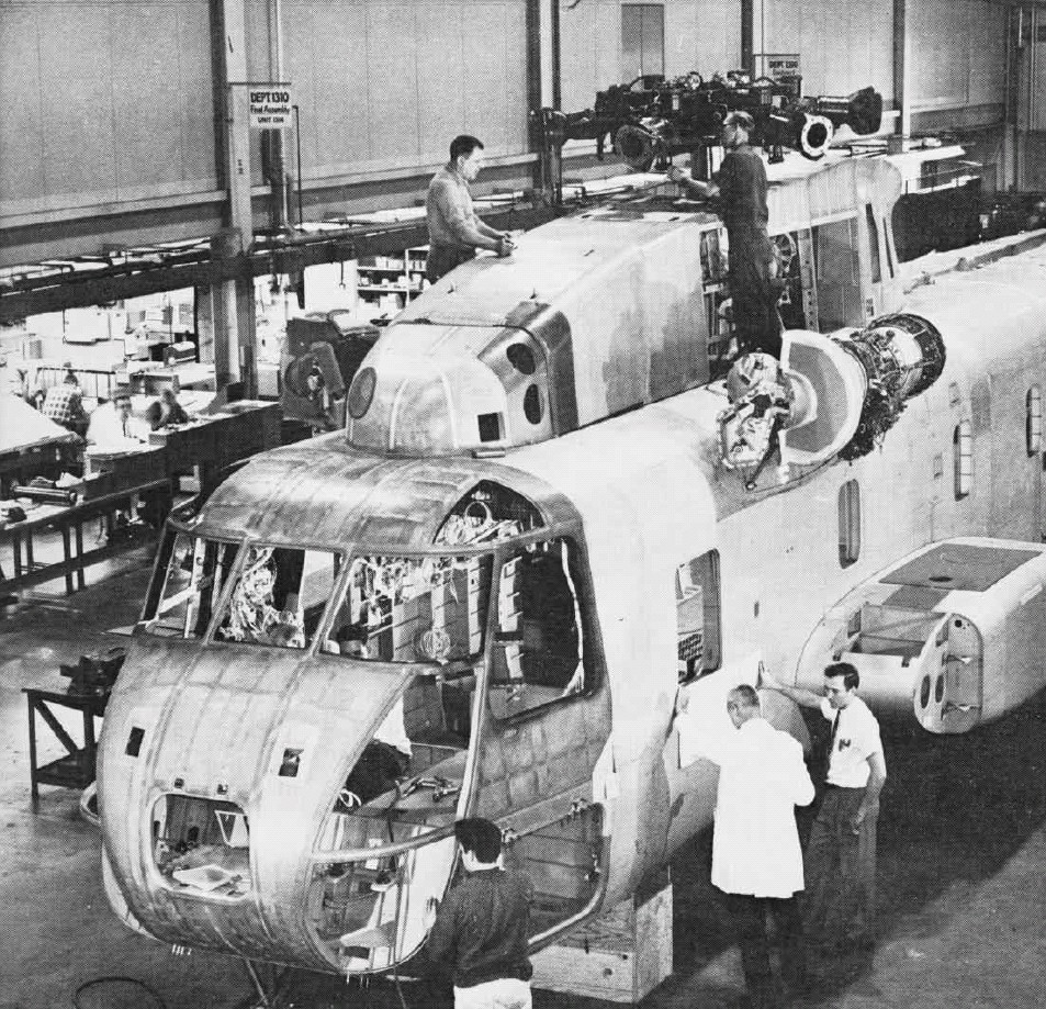 Final assembly of the first Sikorsky CH-53A Sea Stallion helicopter in 1964, Stratford, Connecticut (USA).